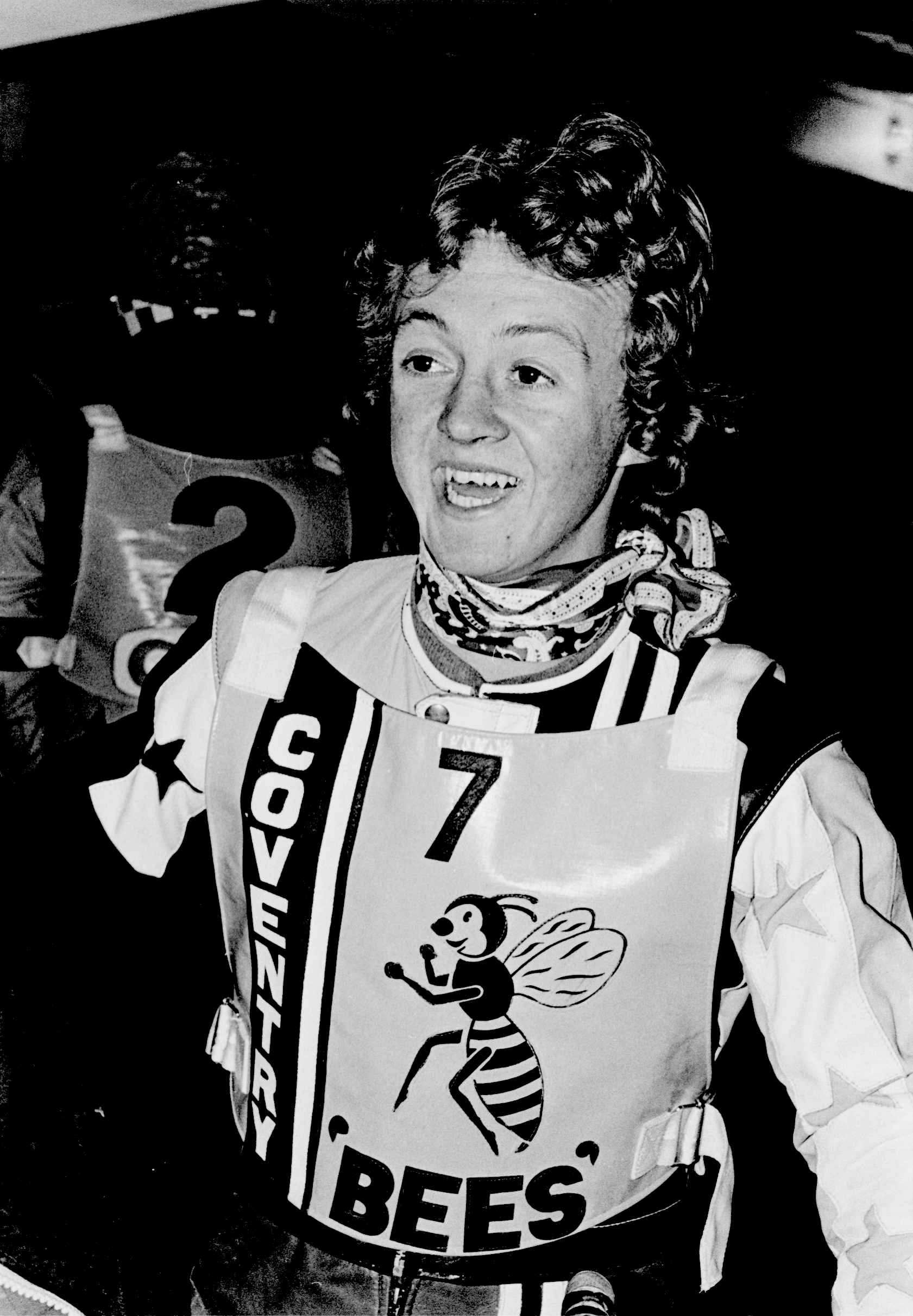 Coventry versus Belle Vue